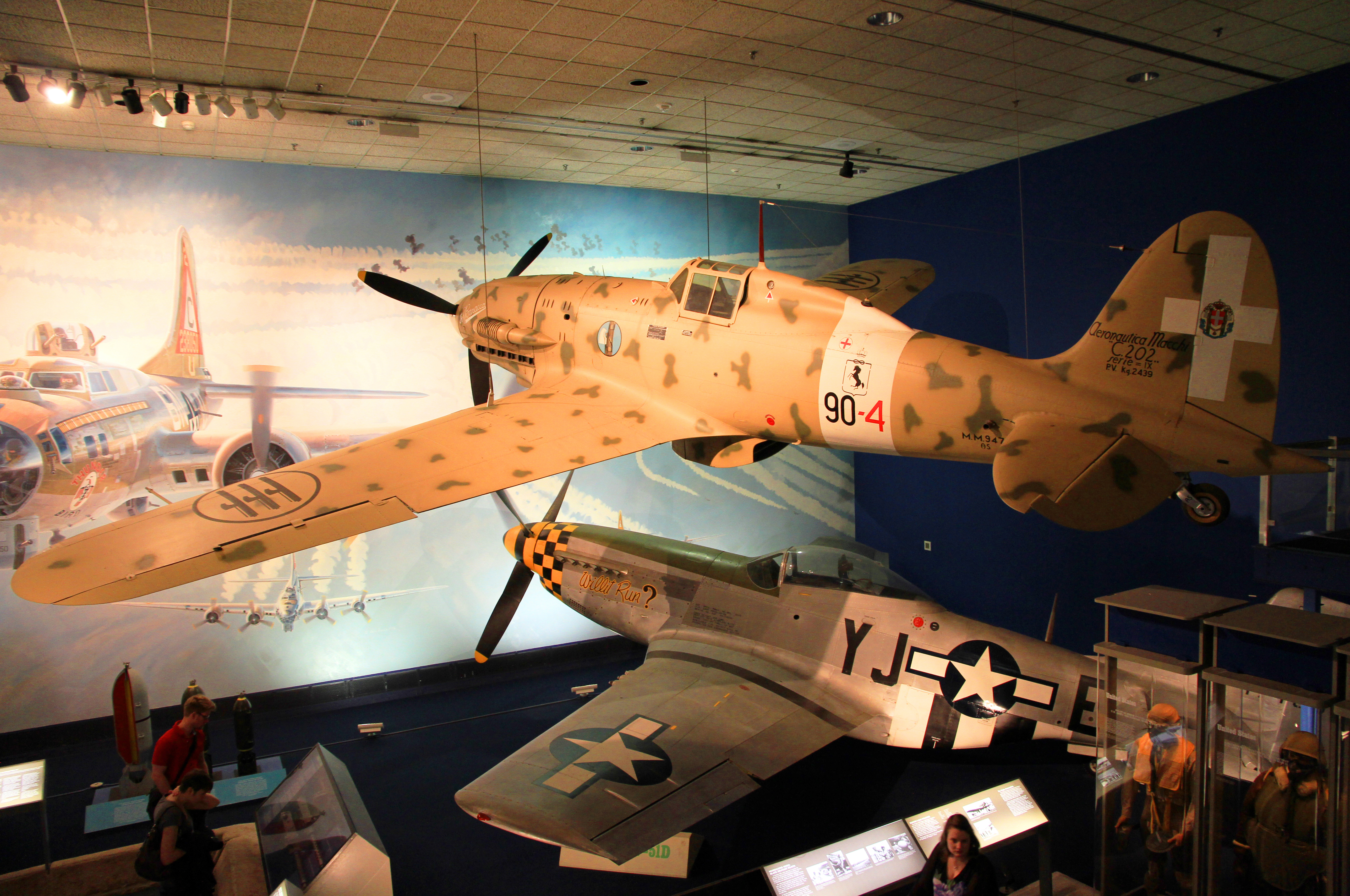 Macchi C202 & Mustang P-51D